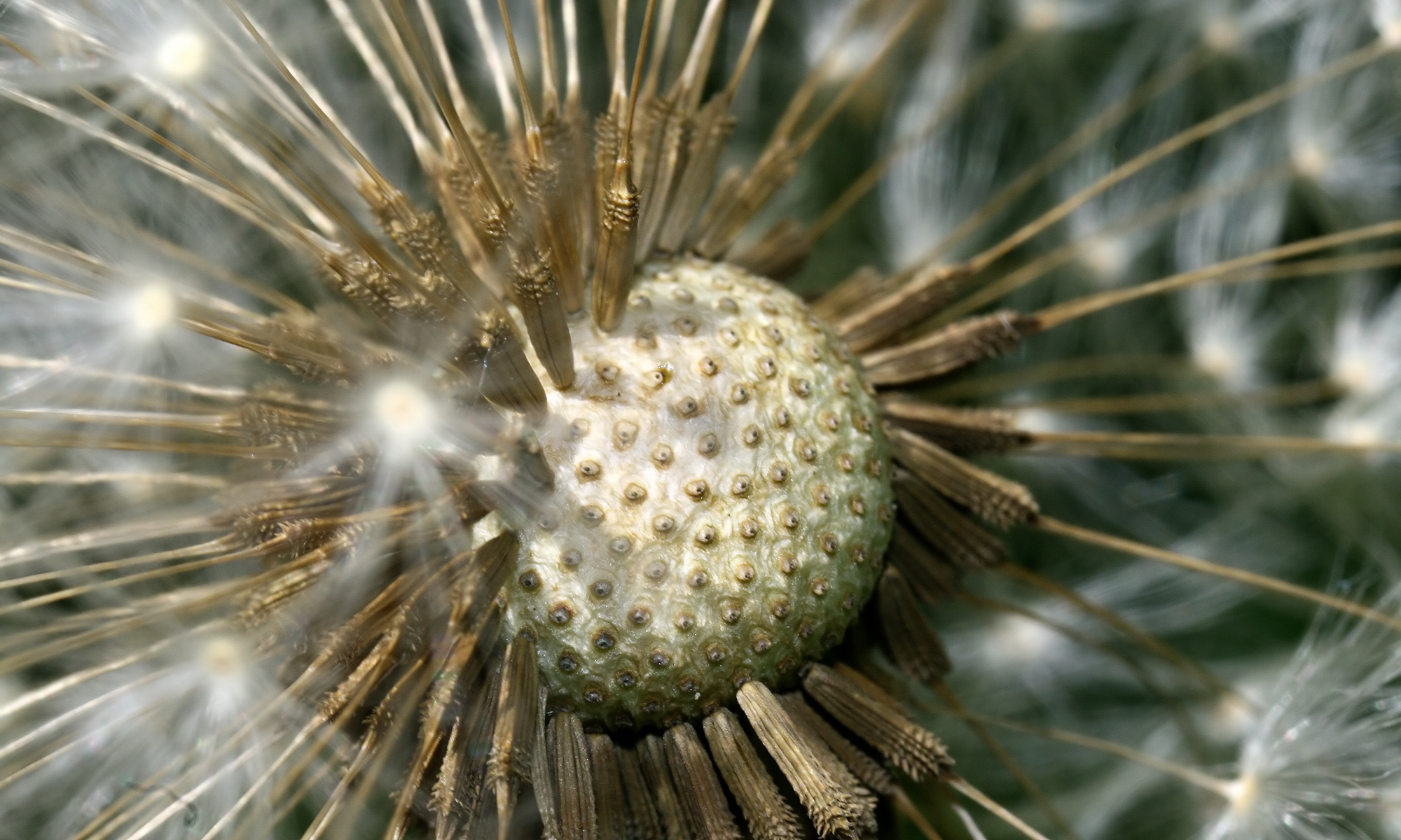 Makroshot of a Taraxacum sect. Ruderalia mature clock.